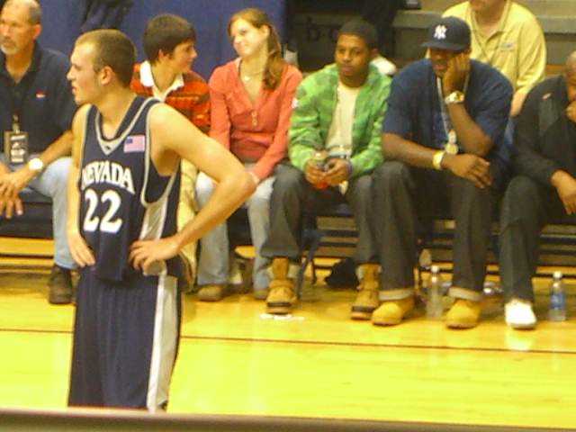 Nick Fazekas as collegiate player during a rare match-up between the Nevada Wolf Pack and the Akron Zips in Akron's James A. Rhodes Arena; Cleveland Cavaliers star LeBron James (pictured wearing New York Yankees cap) attended the game and sat courtside. Photo by Nick Juhasz.